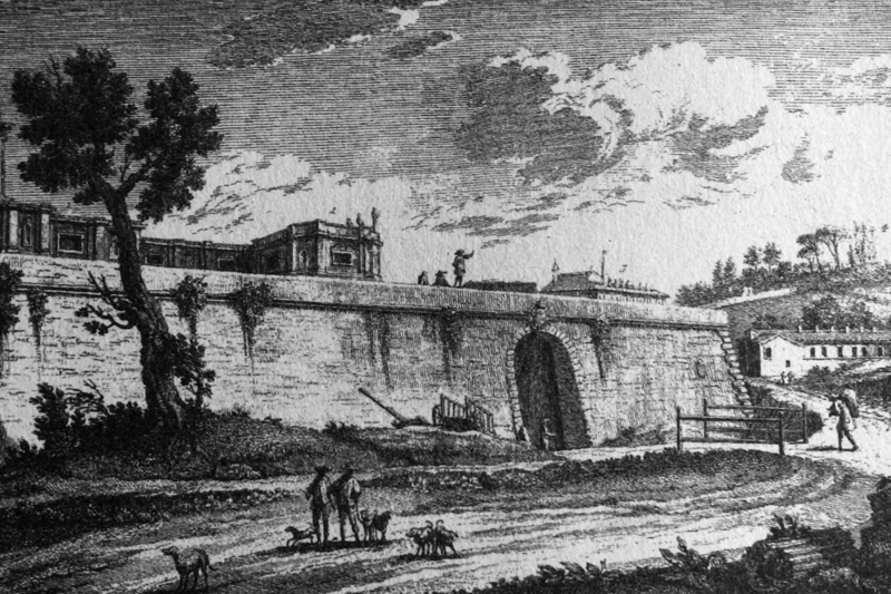 1) Basilica Vaticana (S. Pietro); 2) Cupolino del Vignola; 3) Cavalry Barracks near Porta Cavalleggeri; 4) Hill of Sant'Onofrio.